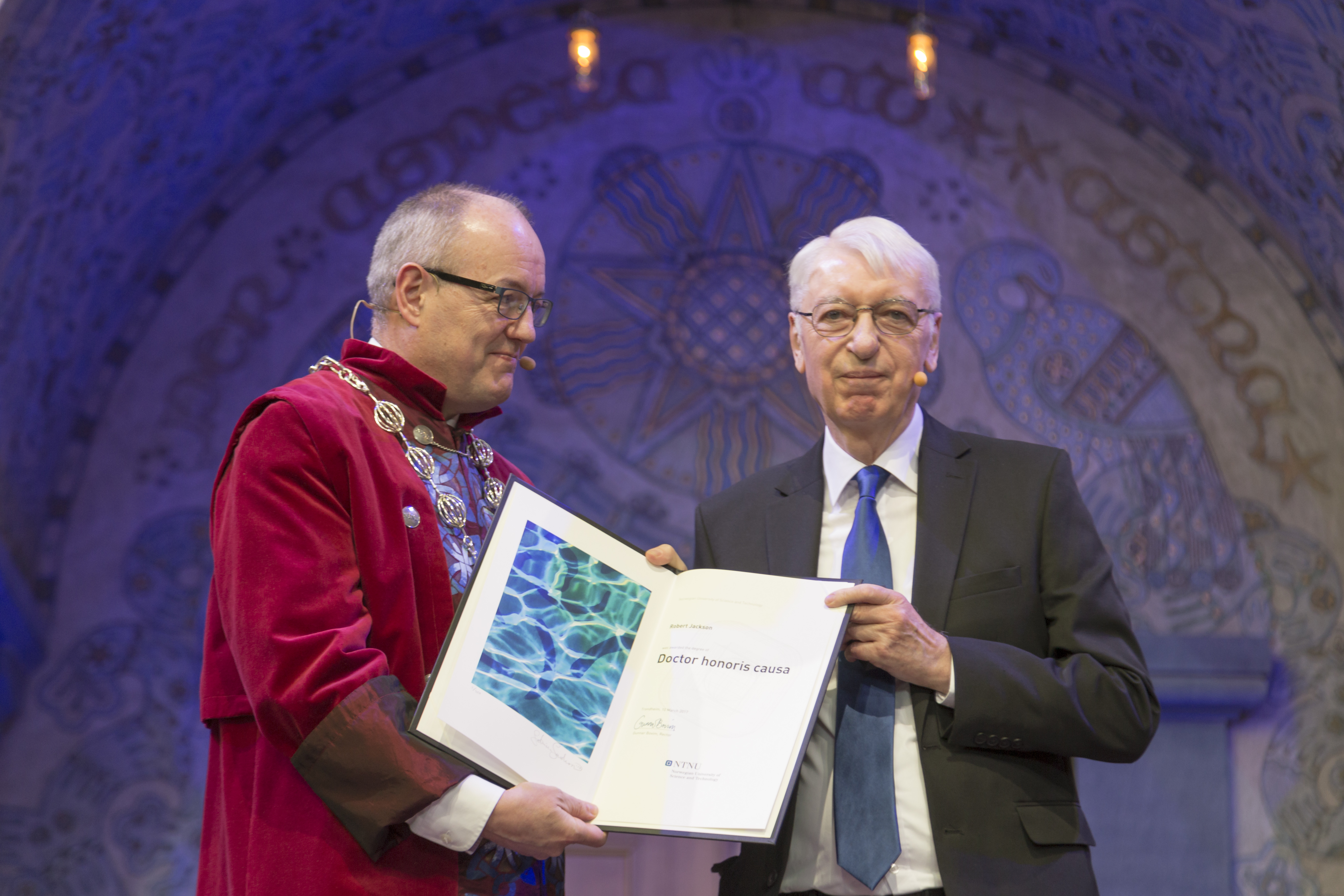 The British educator Robert (Bob) Jackson on the occasion when he received his honorary doctorate at the Norwegian University of Science and Technology (NTNU). Left: Rector Gunnar Bovim